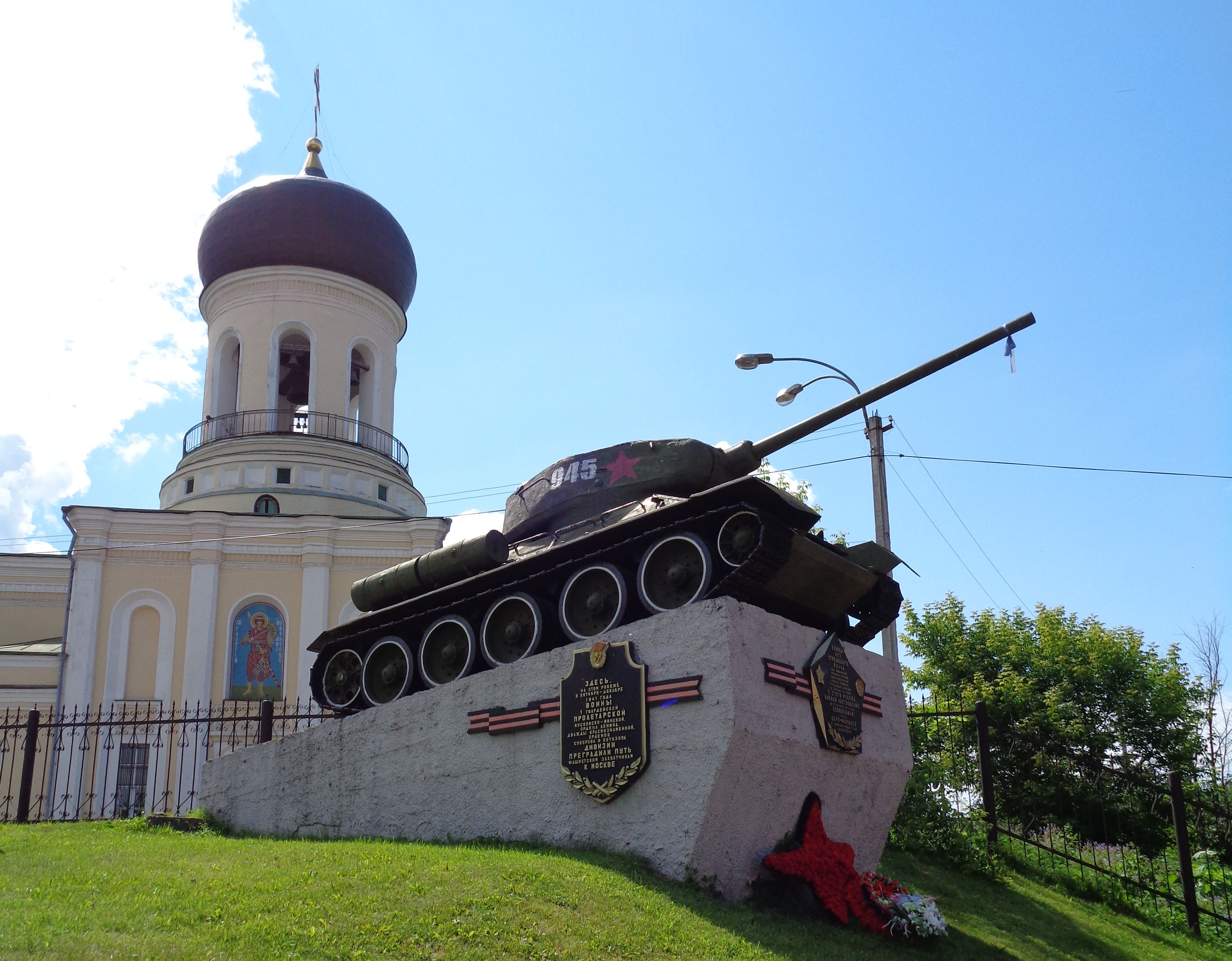 Naro-Fominsk sumbols